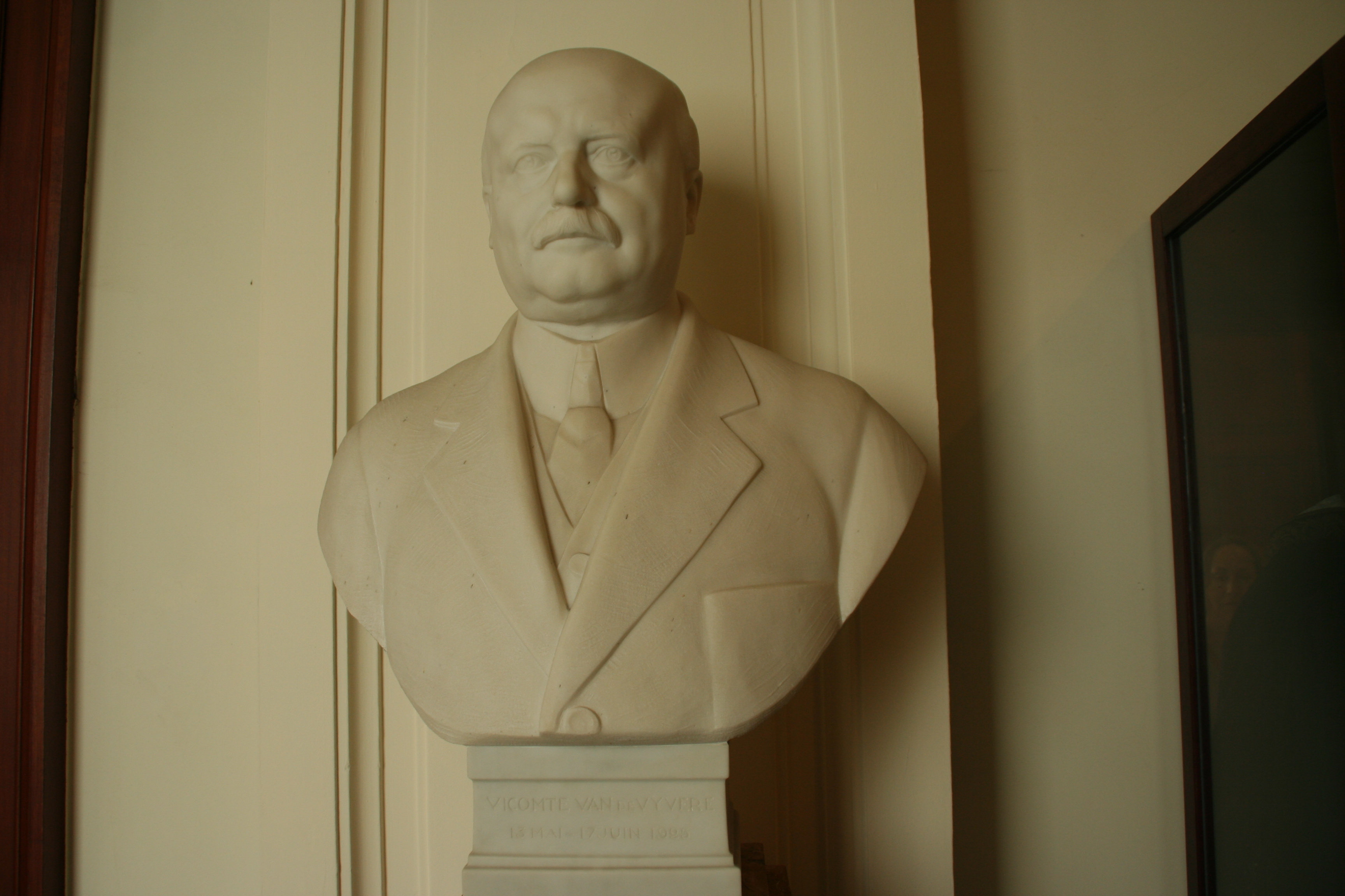 Bust of Aloys Van de Vyvere in the Palais de la Nation in Brussels, Belgium.